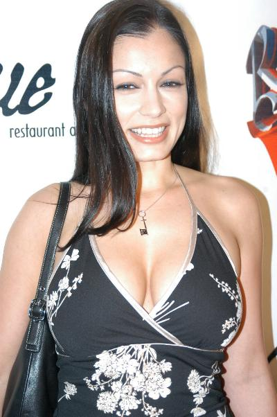 Aria Giovanni at Cassia Riley's Thursday Night Party At Basque on June 22, 2006.